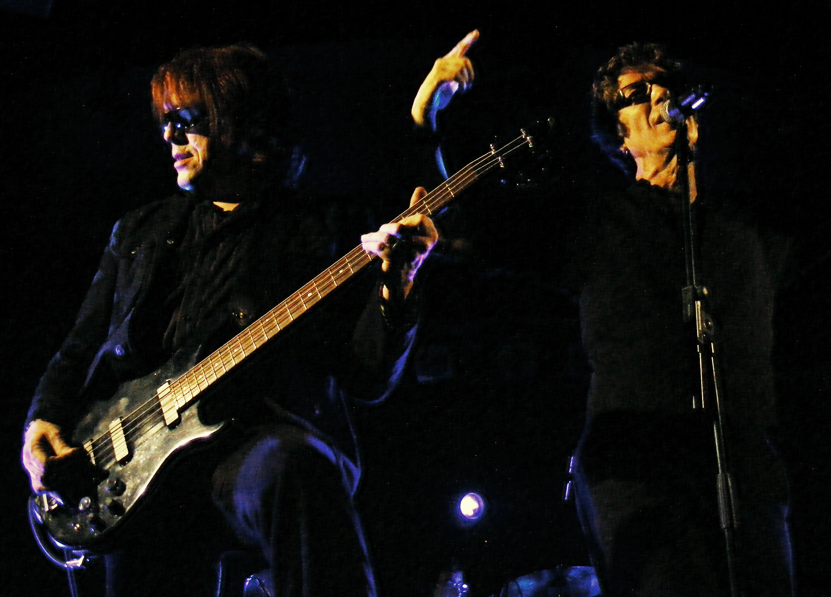 Tim (l.) and Richard Butler onstage